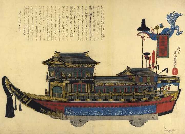 surimono by Matsukawa Hanzan, procession ship and 21 haiku, 1852